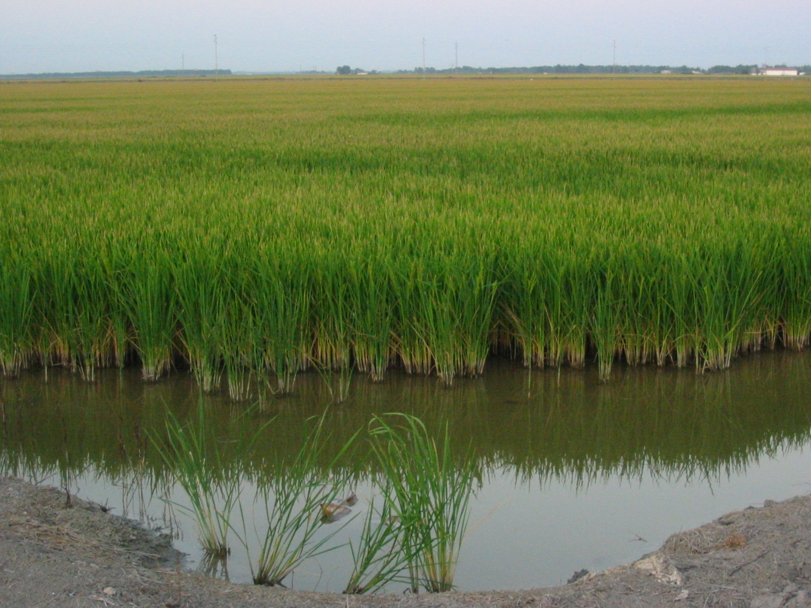 Rice field typical of Las Marismas, near Villafranca del Guadalquivir. Photo by E Asterion u talking to me?